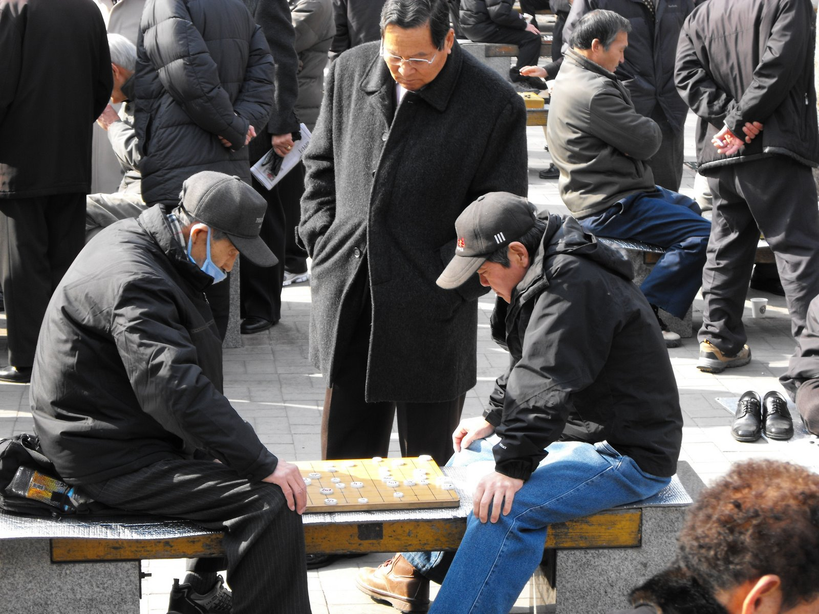 Janggi (Korean chess) players in local park in Jongmyo, South Korea